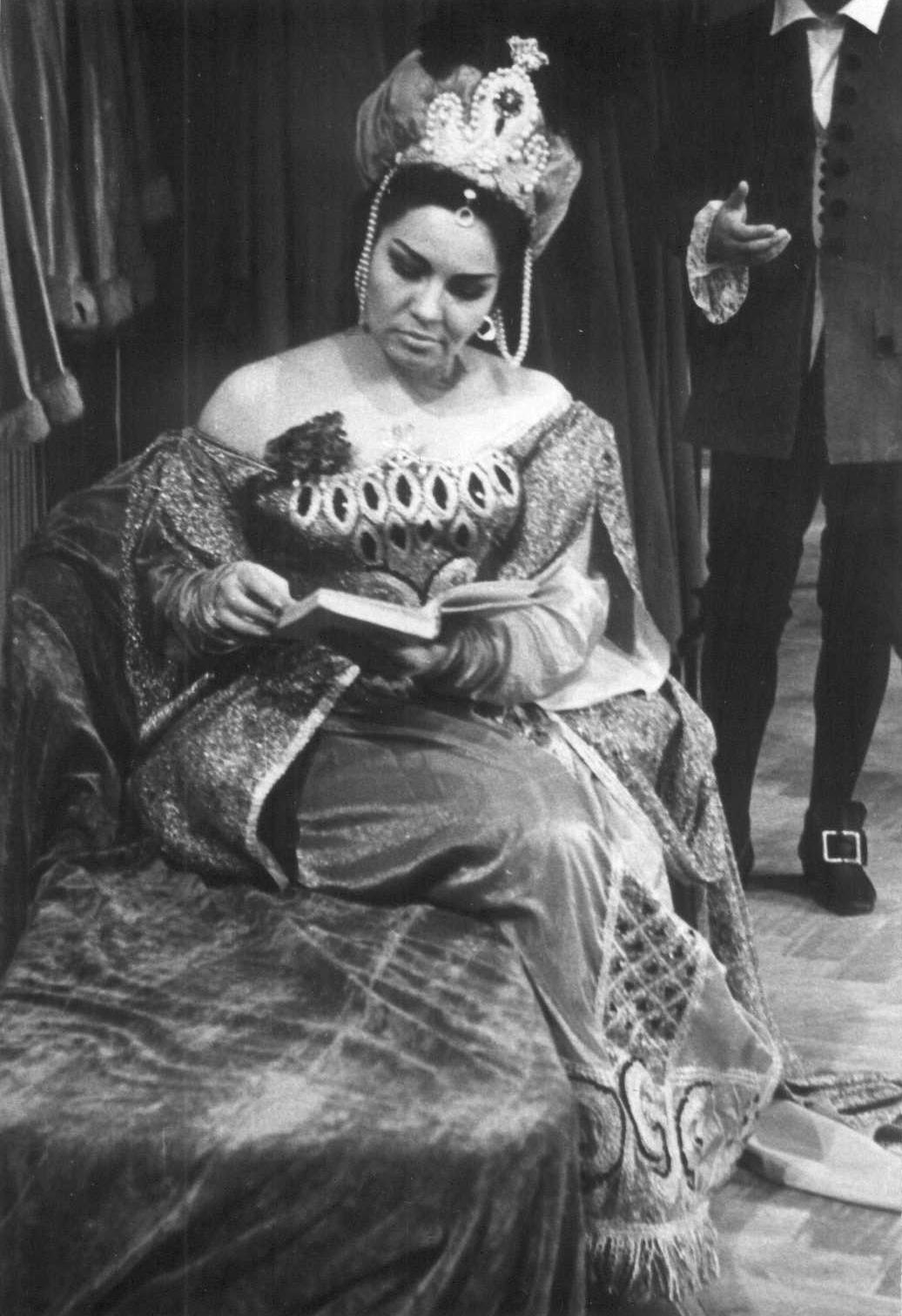 The Famous opera singer Penka Koeva in Adriana Lecouvreur di Cilea